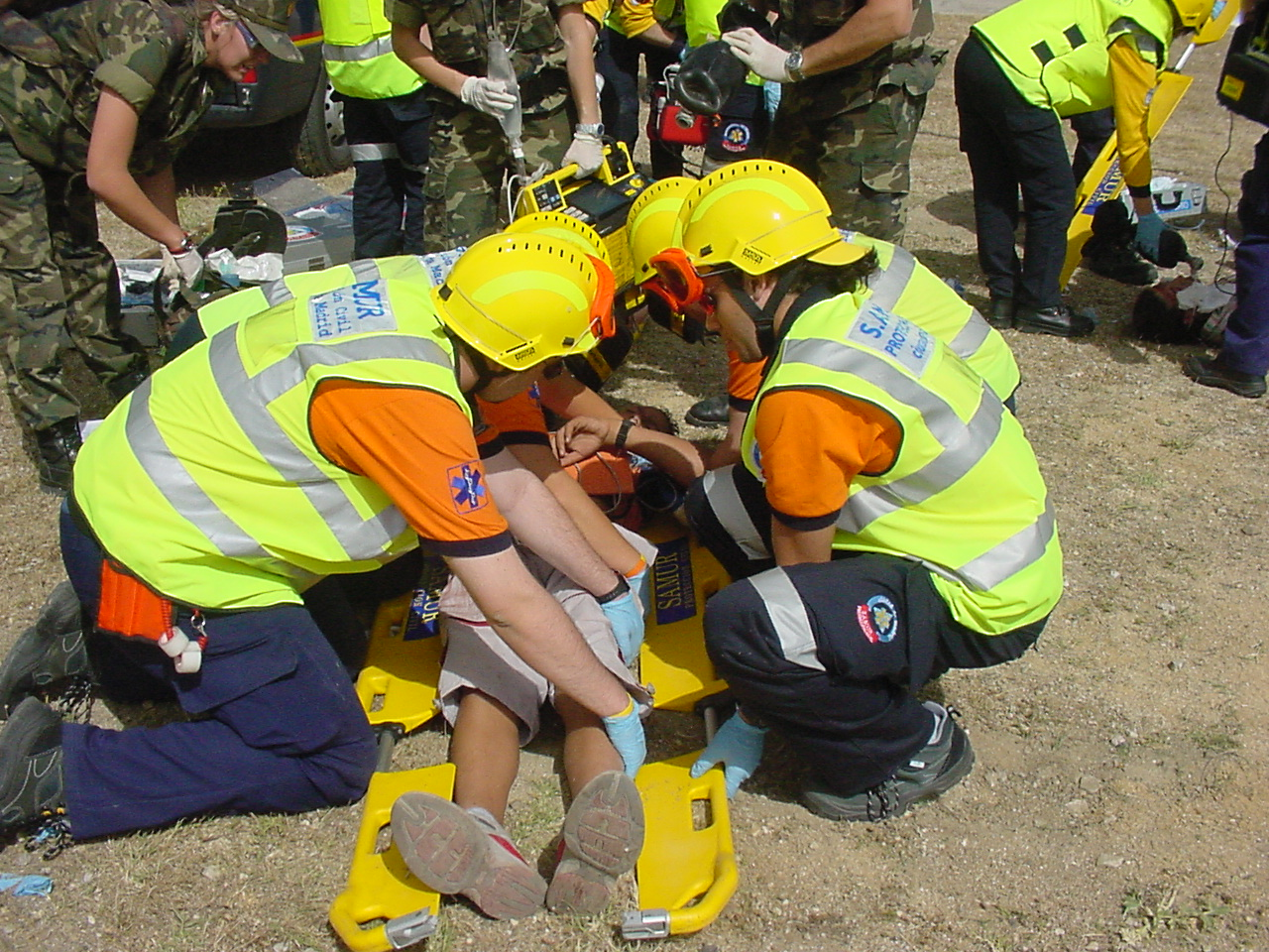 usage of a scoop stretcher by spanish civil protection members